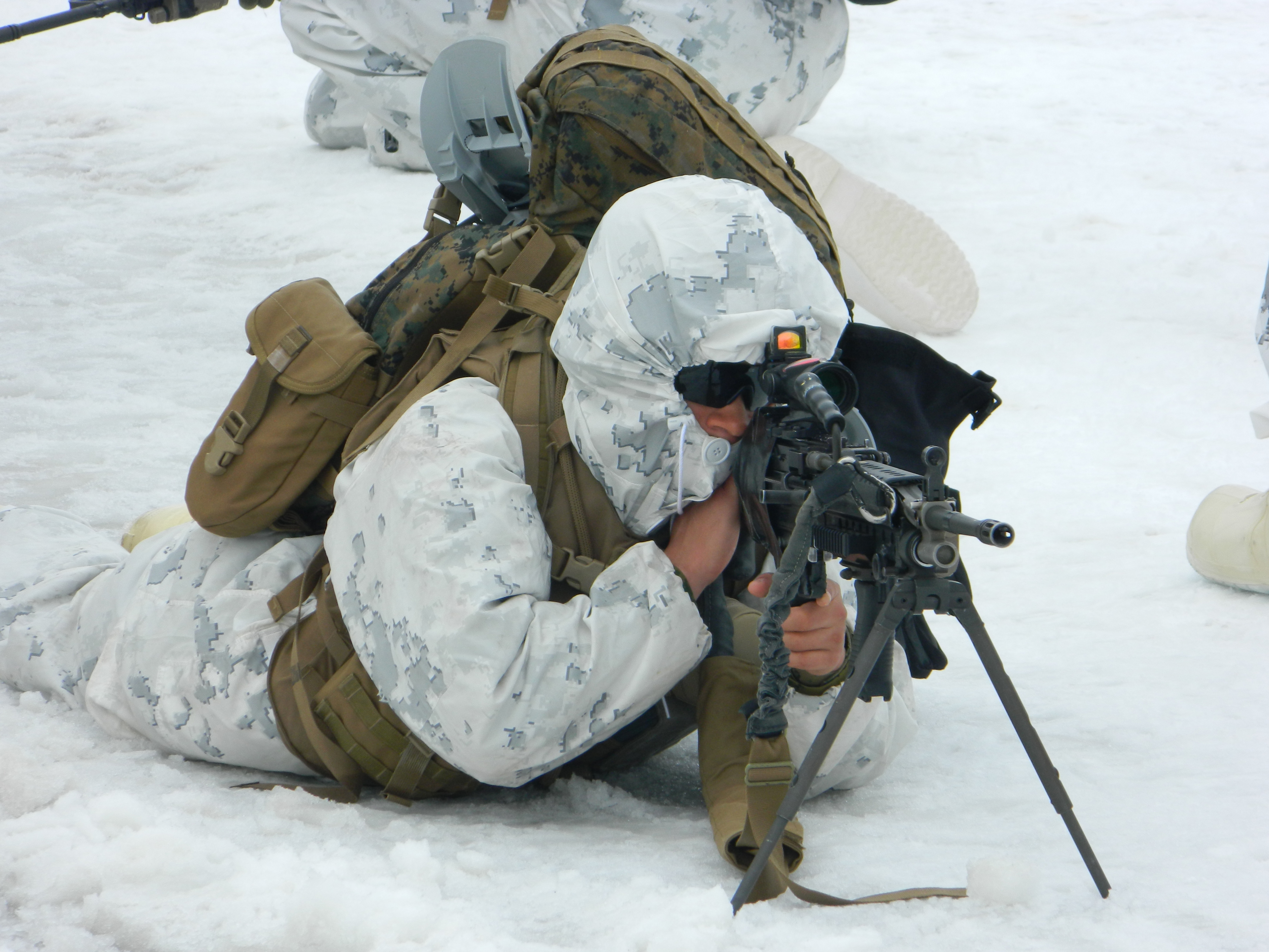 A Marine posts security as his platoon halts during a field training exercise here March 8. Marines from 3rd Marine Logistics Group, III Marine Expeditionary Force and members from 4th Infantry Regiment, 5th Brigade, Japan Ground Self-Defense Force conducted a bilateral FTX during exercise Forest Light 12-2. The purpose of Forest Light 12-2 is to enhance the interoperability of Marines and JGSDF members while increasing individual and unit readiness in a cold weather environment. III Marine Expeditionary Force / Marine Corps Installations Pacific Photo by 2nd Lt. Jeanscott Dodd Date Taken:03.08.2012 Location:YAUSUBETSU TRAINING AREA, HOKKAIDO, JP Read more